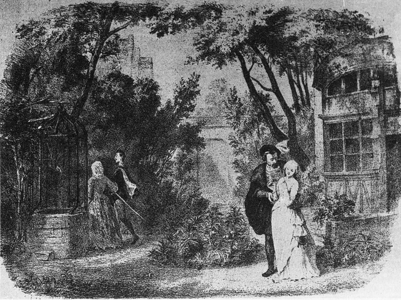 Margeurite's garden in Act 3 of the opera Faust by Gounod as presented in the original production at the Théâtre Lyrique on 19 March 1859.